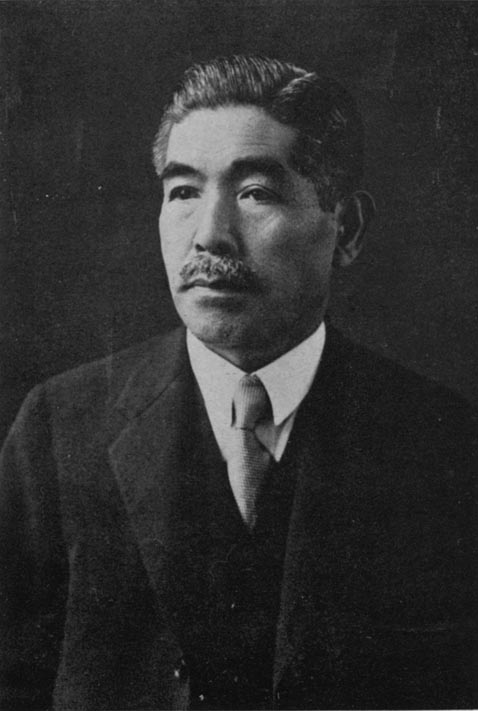 Zensaku Sano.